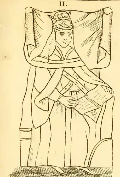 Tarot trump card design from the Court de Gébelin essay Du Jeu des Tarots.